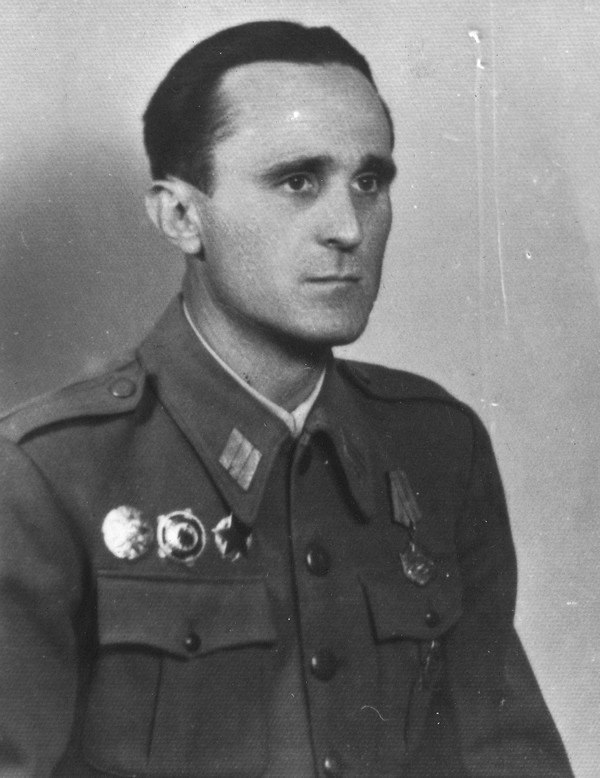 National hero of Yugoslavia Српски (ћирилица): Народни херој Југославије